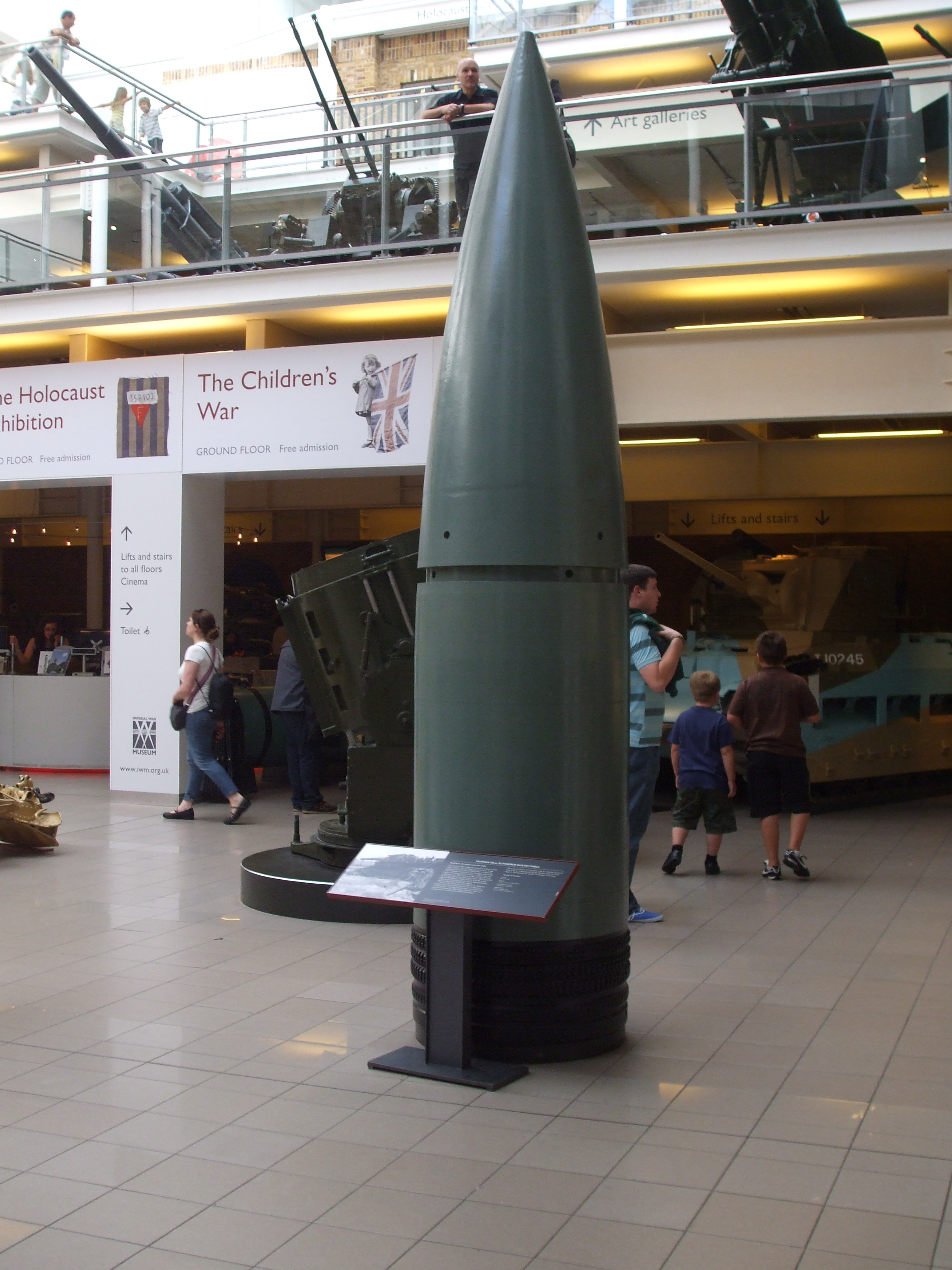 Grenade used over the Schwerer Gustav, exhibited at the Imperial War Museum of London.